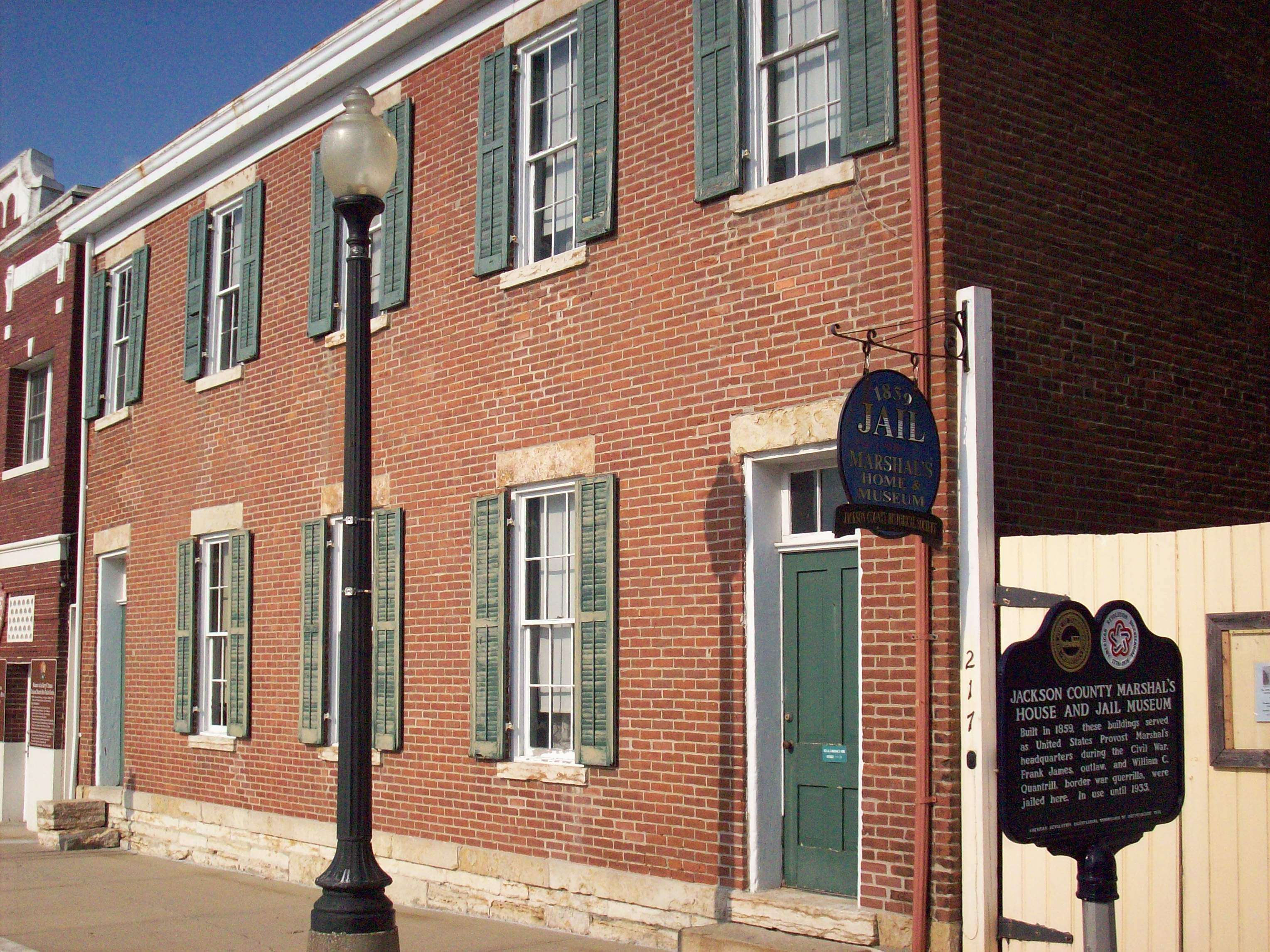 Photo of the 1859 Independence, Missouri Jail and Museum